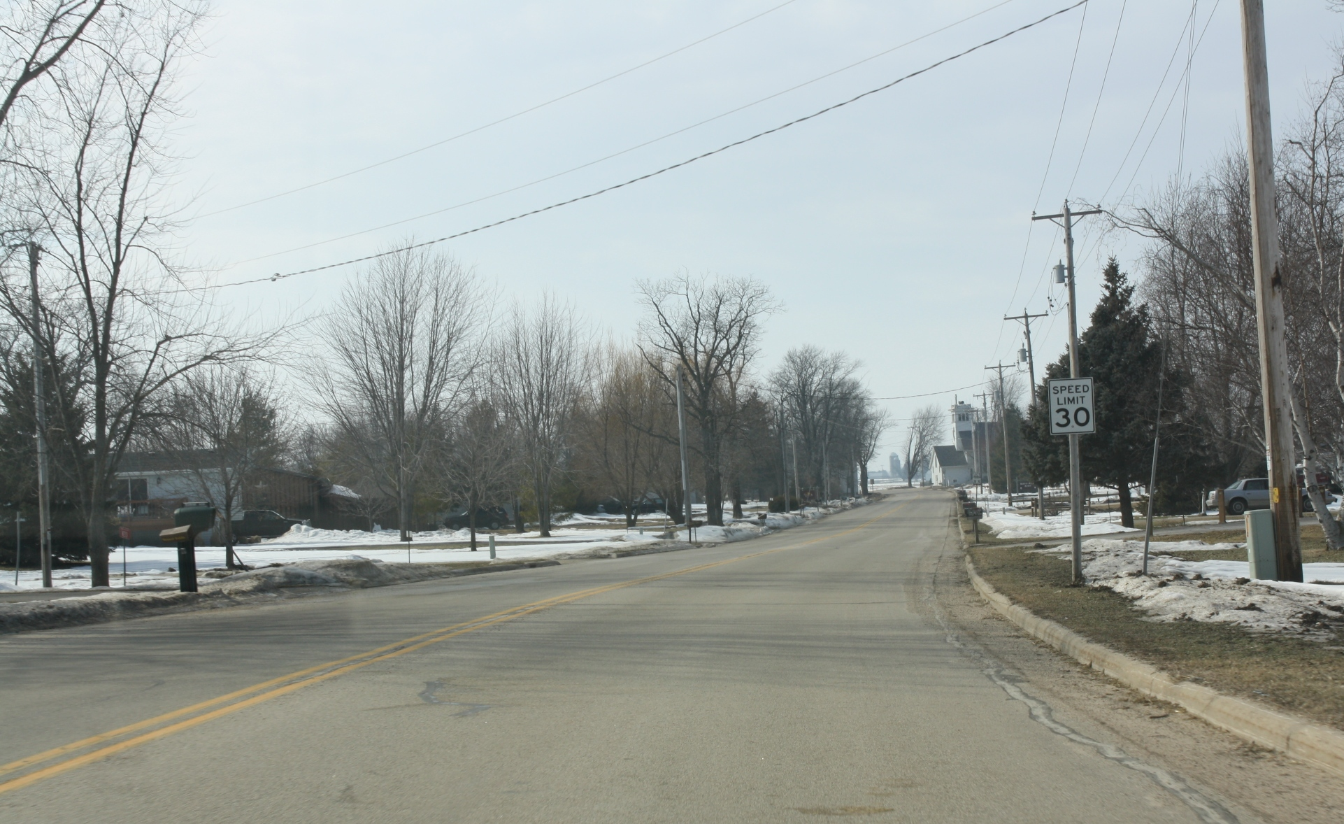 Looking west at downtown Borth, Wisconsin.